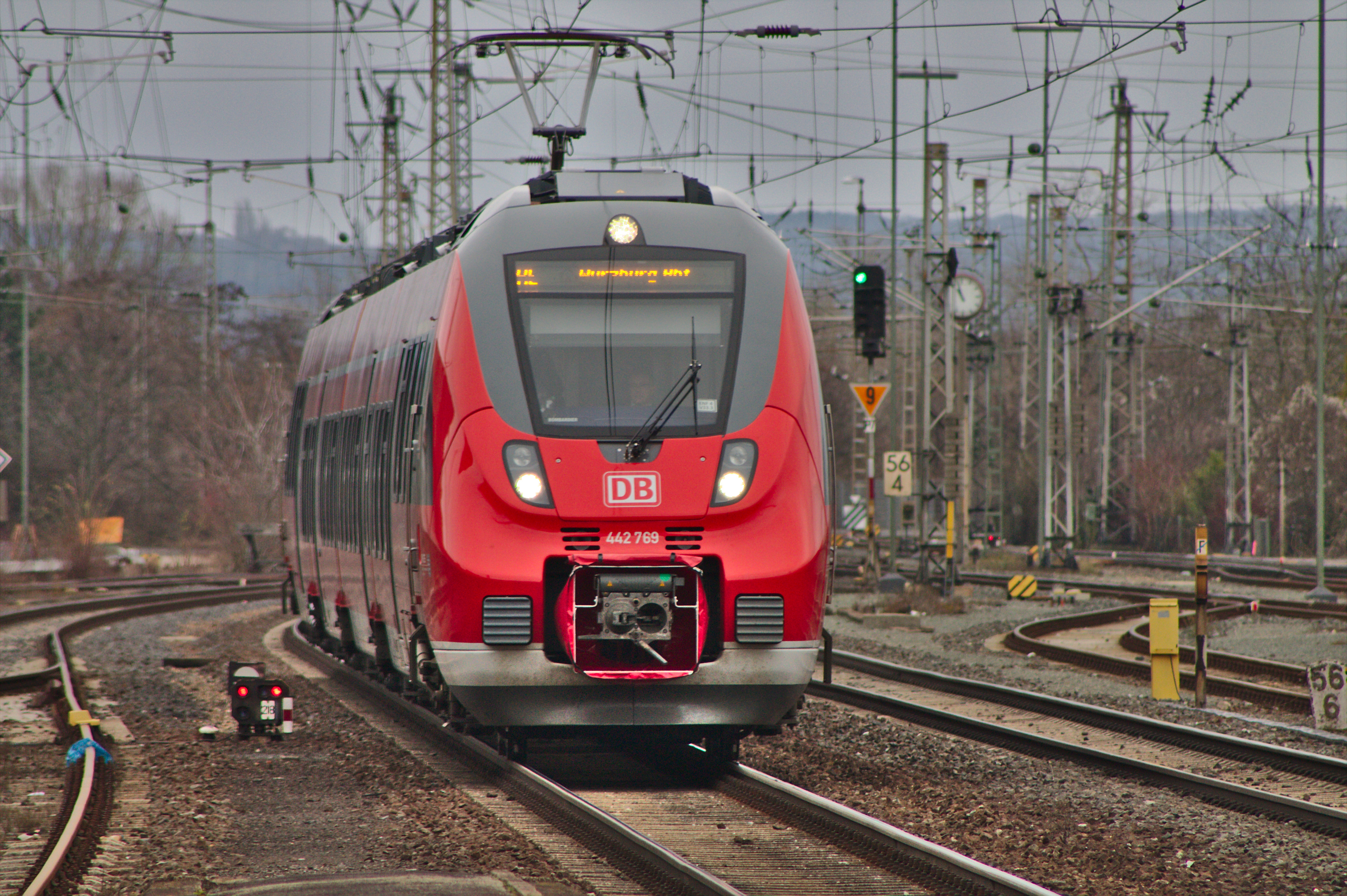 Bombardier TALENT 2 442 769 operated by German Rail Regional Services of Bavaria (DB Regio Bayern), approaches Schweinfurt Central Station on Franconia-Thuringia Express services (Franken-Thüringen-Express; Nuremberg → Schweinfurt → Würzburg).